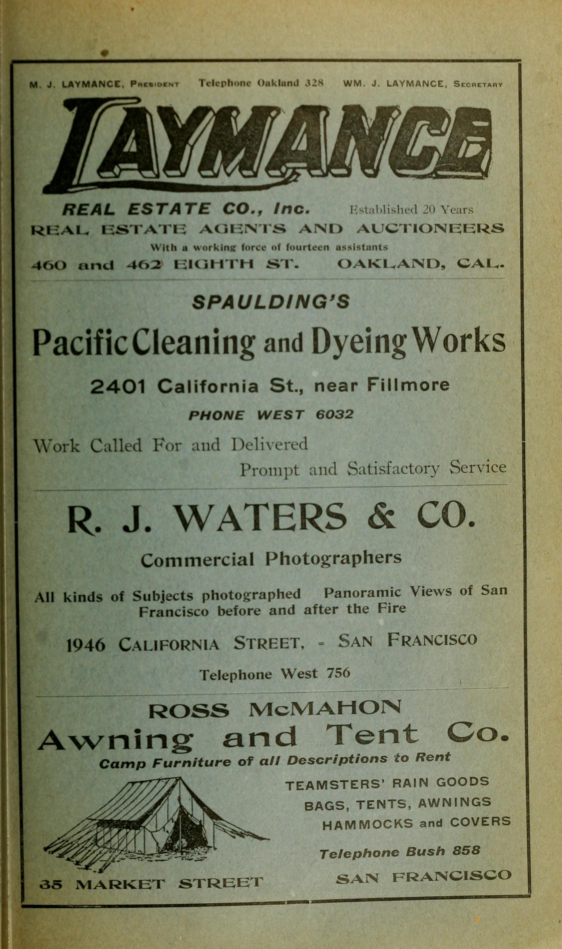 Title: San Francisco telephone directory Year: 1906 (1900s) Authors: Pacific States Telephone and Telegraph Company Subjects: Publisher: San Francisco : Pacific States Telephone and Telegraph Co. Text Appearing Before Image: nt, Mrs. Maud Res 680 Waller Luscombe & Isaacs Corsets, 1415 Devisadero Lussier, Will Res 914% Devisadero Lustig, Dr. D. D Res 2601 Broadway Lustig, Dr. D. D Office 2502 Washington Lutge, Richard. .. .Prop. Folsom-st. Iron Works, 3153 Eighteenth Lutgens, A Res 834 Fulton Luther, Margaret E Res 316 Haight Lutich, Mrs. A Res 1368 Haight Luticken, L. J Res 130 Carl Luttringer, R. J Res 332 Frederick Lutz, P. C Res 1675 Post Lutz, W. E Res 2031 Baker Lyle, A. G Res 133 Alpine Lymberg, C. H Res 2280 Green Lynch, A Res 1206 Clement Lynch, Col. Frank Res 895 Fulton Lynch & Drury Attorneys, 2053 Sutter Lynch, E Res 72 Haight Lynch, E. J A ttorney, 2394 Pine Lynch, H Res 1214 Masonic Ave Lynch, J. J Res 3011 California Lynch, John Res 961 Oak Lynch, John C Collector Internal Revenue, Appraisers Bldg Lynch, M. C. & P. J Contractors and Builders, 1068 Brannan Lynch, Mrs. M Res 3294 Clay Lynch, Mrs. Wm Res 518 Lyon J LAYMANCE. Pmiioint Telephone Oaklund ,12S WM. J. LAYMANCE, Secretary Text Appearing After Image: REAL ESTATE CO., Inc. Wished 20 Years REAL, i:siATi; ACIEINTS AiNI) AUCTIONEERS with u working force f fourteen assistants460 unci -42 EIGHTH ST. OAKLAND, CAL. SPAULDINGS Pacific Cleaning and Dyeing Works 2401 California St., near Fillmore PHONE WEST 6032 Work Called For and Delivered Prompt and Satisfactory Service R. J. WATERS & CO. Commercial Photographers All kinds of Subjects photographed Panoramic Views of SanFrancisco before and after the Fire 1946 California Street, = San Francisco Telephone West 756 ROSS McMAHON Awning and Tent Co. Camp Furniture of all Descriptions to Rent TEAMSTERS RAIN GOODSBAGS, TENTS, AWNINGSHAMMOCKS and COVERS Telephone Bush 858 35 MARKET STREET SAN FRANCISCO